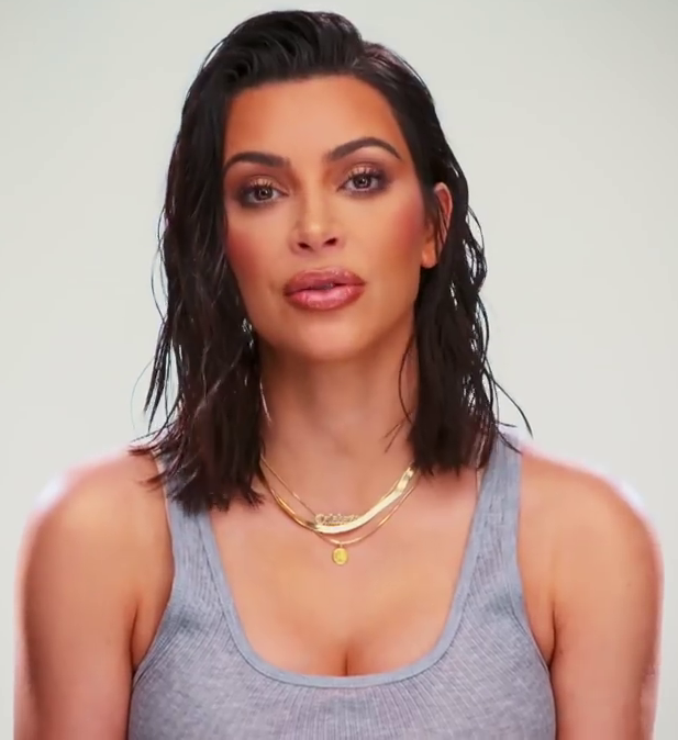 Kim Kardashian